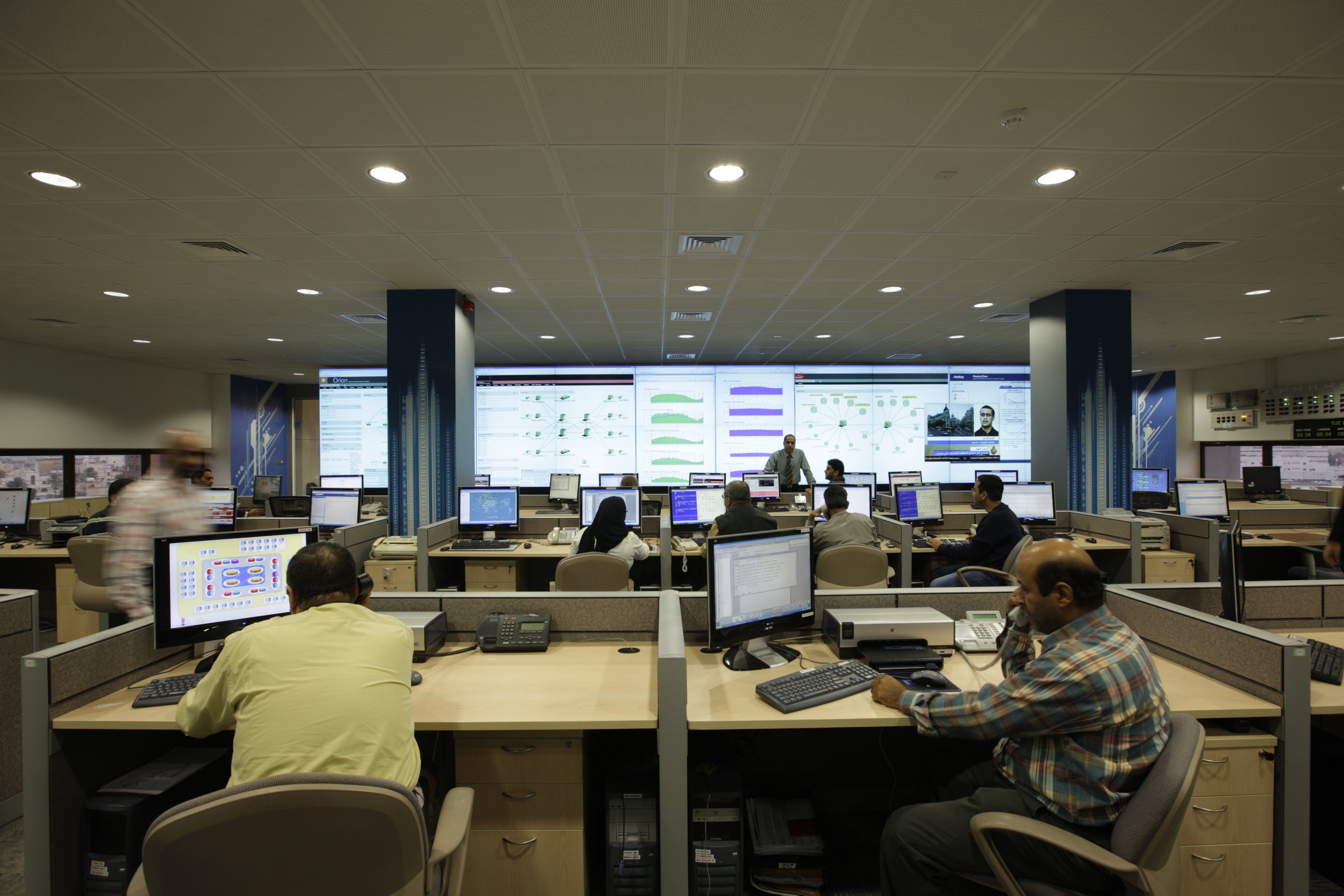 Batelco's Network Operations Center